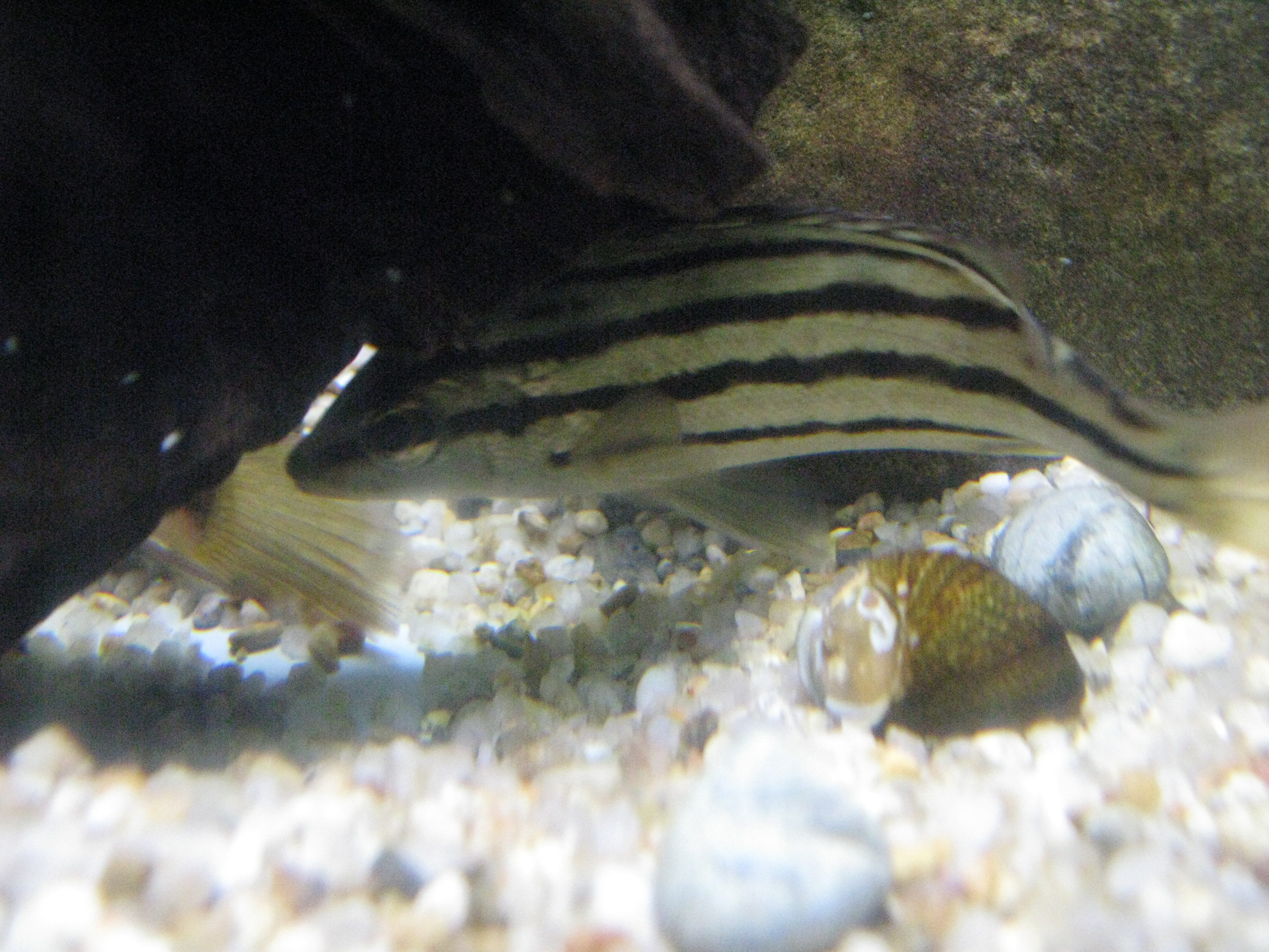 Scientific name Rhyncopelates oxyrhynchus